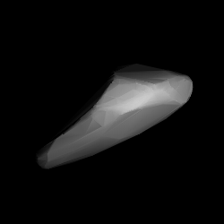 3D convex shape model of 315 Constantia, computed using light curve inversion techniques. J. Hanuš, J. Ďurech, M. Brož, B. D. Warner (June 2011). "A study of asteroid pole-latitude distribution based on an extended set of shape models derived by the lightcurve inversion method". Astronomy and Astrophysics 530: A134. ISSN 0004-6361. arXiv